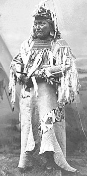 Photograph of Chief Homli (1822-1891) nephew or son of Yellow Bird, depending on source likely taken by Lee Moorehouse and part of the collection at NY Public Library.